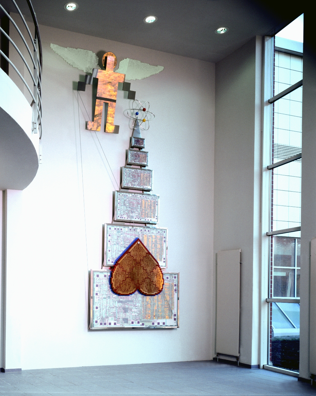 by Petrus Wandrey, 1992 Wall-installation at the entrance hall to the clean-room facility of the Physikalisch Technische Bundesanstalt (PTB) at Braunschweig, Germany Material: mixed media